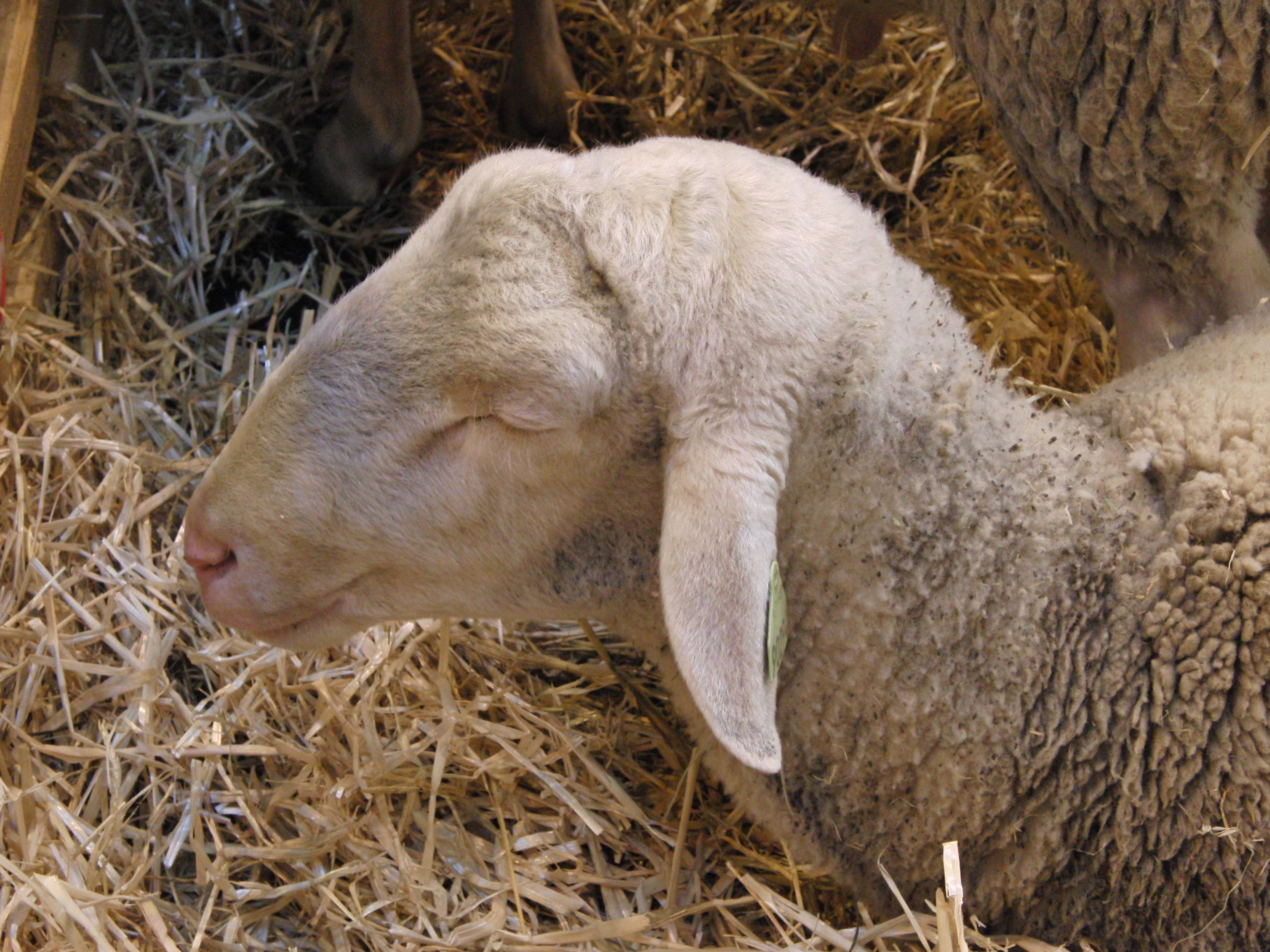 Préalpes du Sud sheep's head - Salon international de l'agriculture 2011, Paris, France